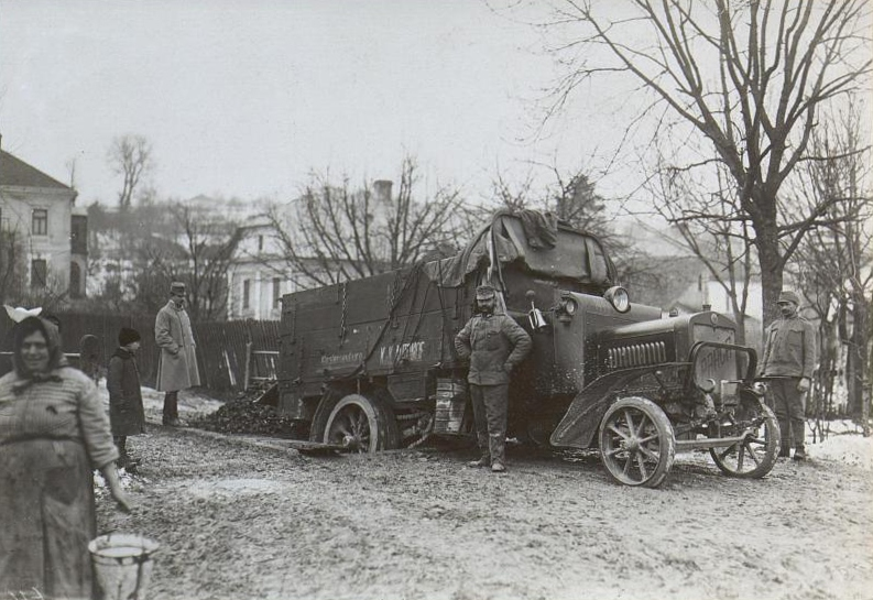 Autounfall auf einer Kanalbrücke bei Brzezany